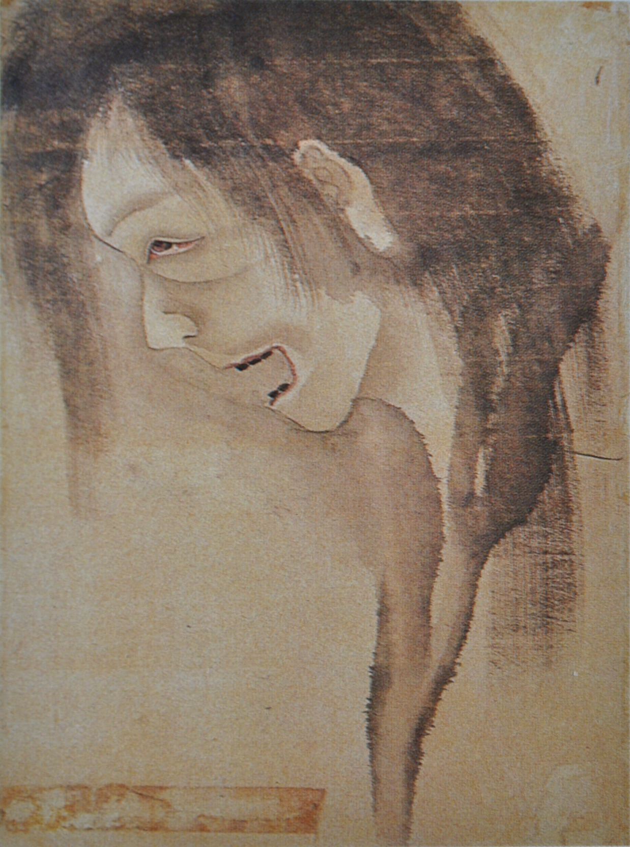 Drawing by Hokusai: study of the face of a drowned woman, intended for later work on ghosts (1840).